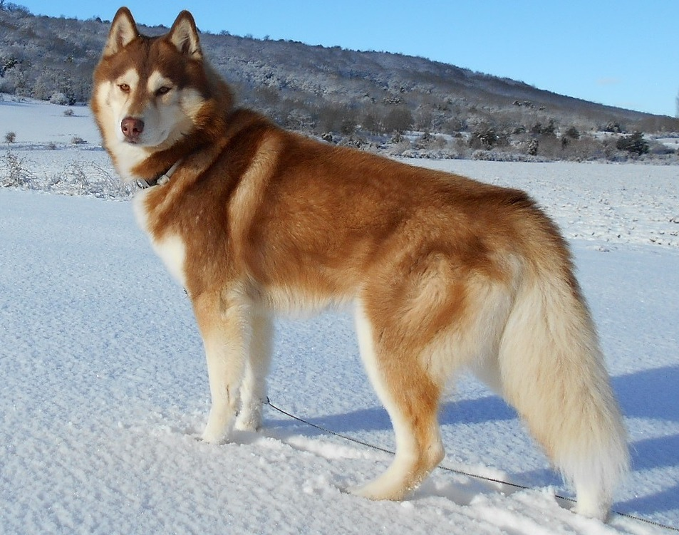 Siberian Huky dog liver